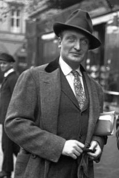 Title: Hans Albers Extra information: Berlin.- Schauspieler Hans Albers bei einem Spaziergang Unter den Linden. People in the image: Albers, Hans: Schauspieler, Bundesrepublik Deutschland Factual corrections and alternative descriptions are encouraged separately from the original description. Additionally errors can be reported at this page to inform the Bundesarchiv. Original historic description